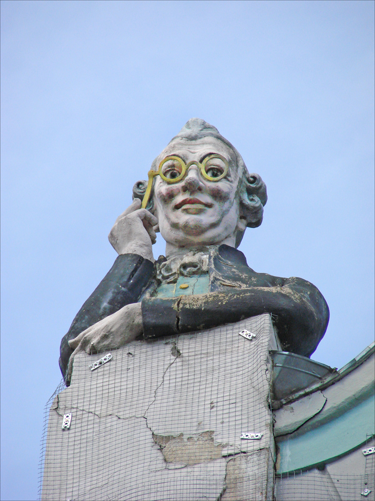 Art Nouveau building designed by Jacques Rosenbaum at Pikk 23/25, Tallinn. Detail.